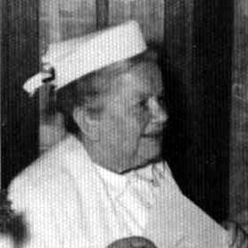 Schwester Selma Mair at Shaare Zedek Hospital in 1953